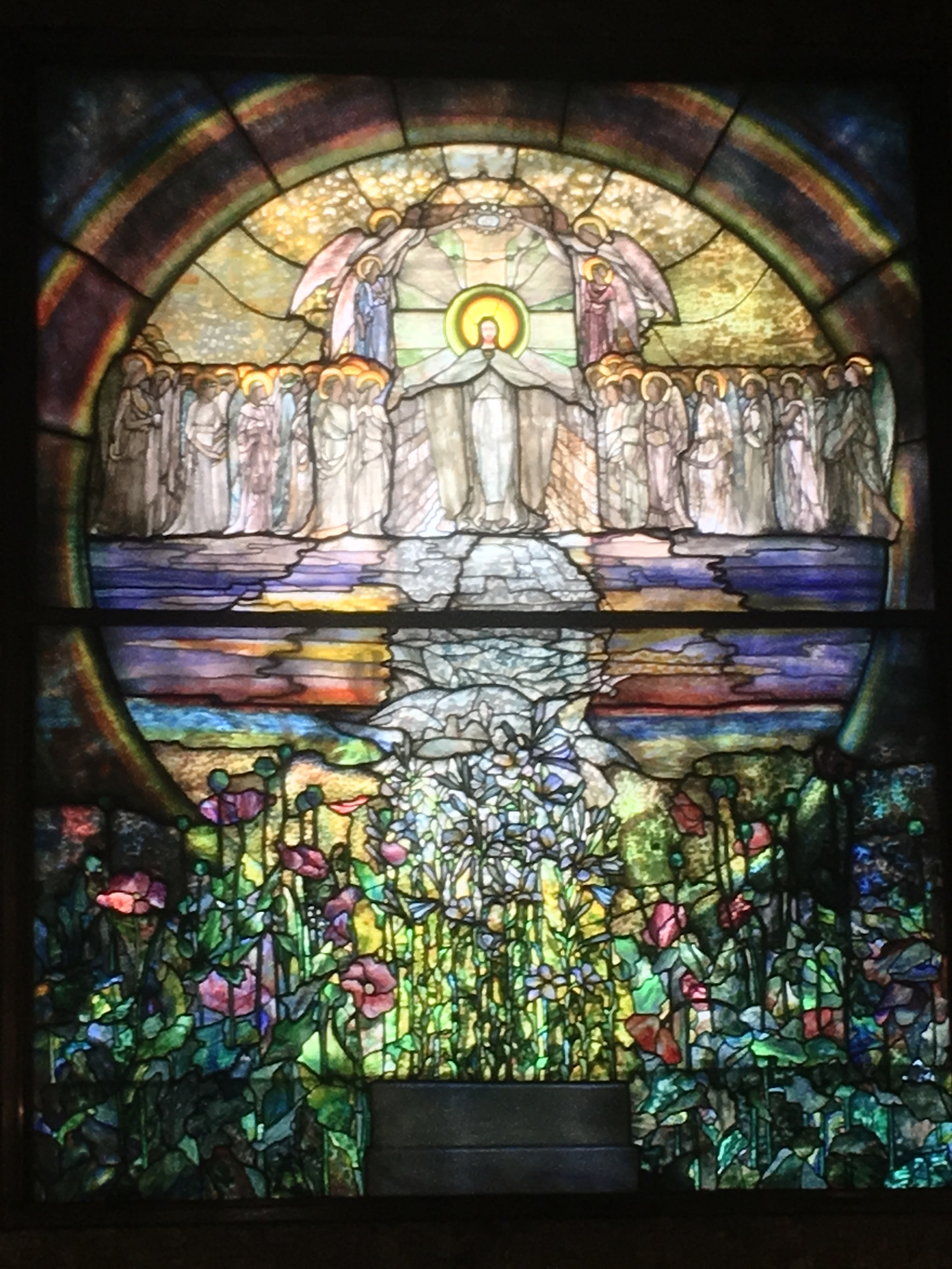 "The Flight of Souls", stained glass window marks the centerpiece of the chapel, It depicts the consummation of the Divine Promise and is created in Tiffany’s signature favrile method. Prior to being placed in the chapel, the piece won first place at the 1900 Exposition Universelle in Paris.